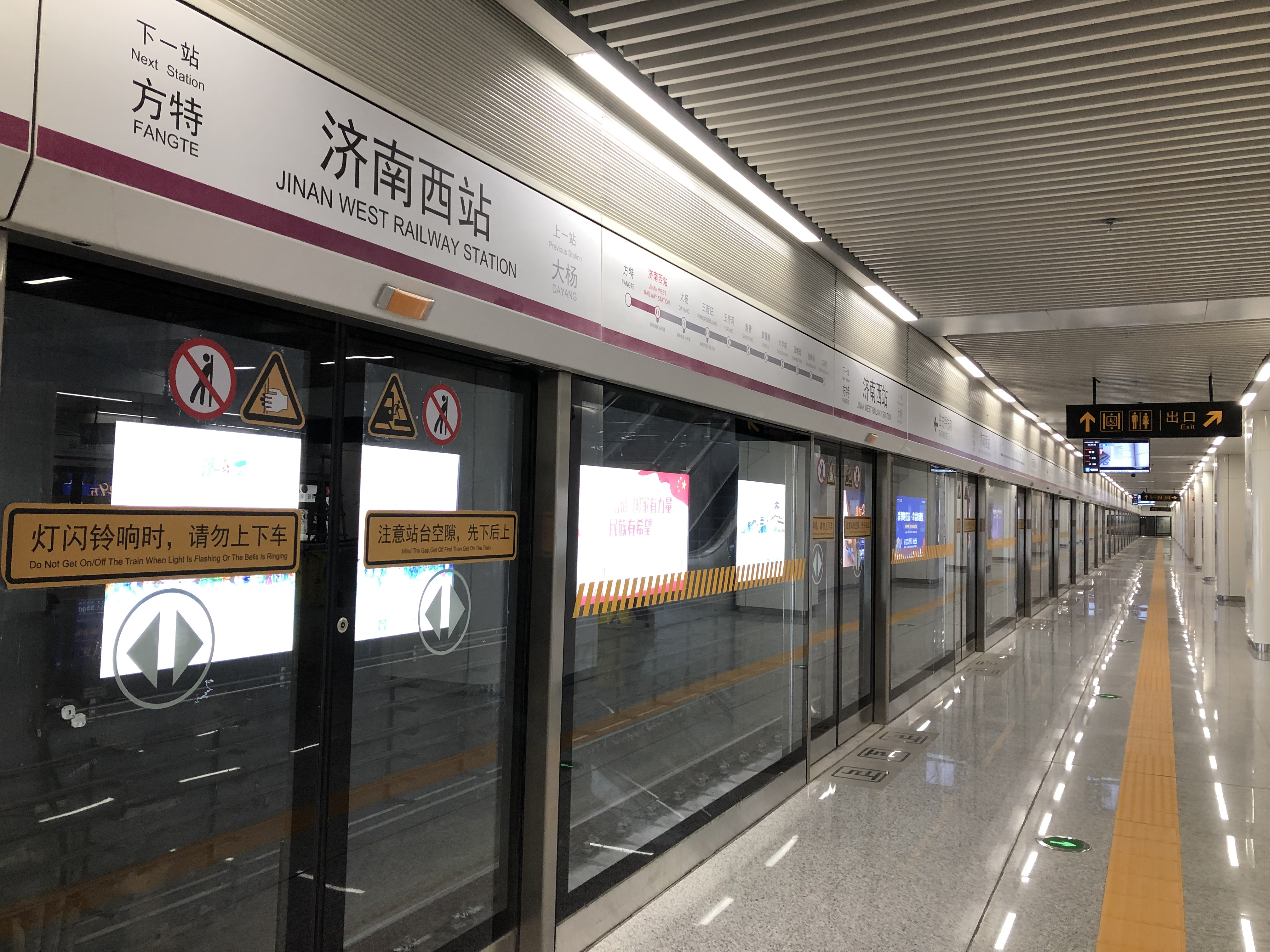 Jinan West Railway Station (Metro), platform 1.